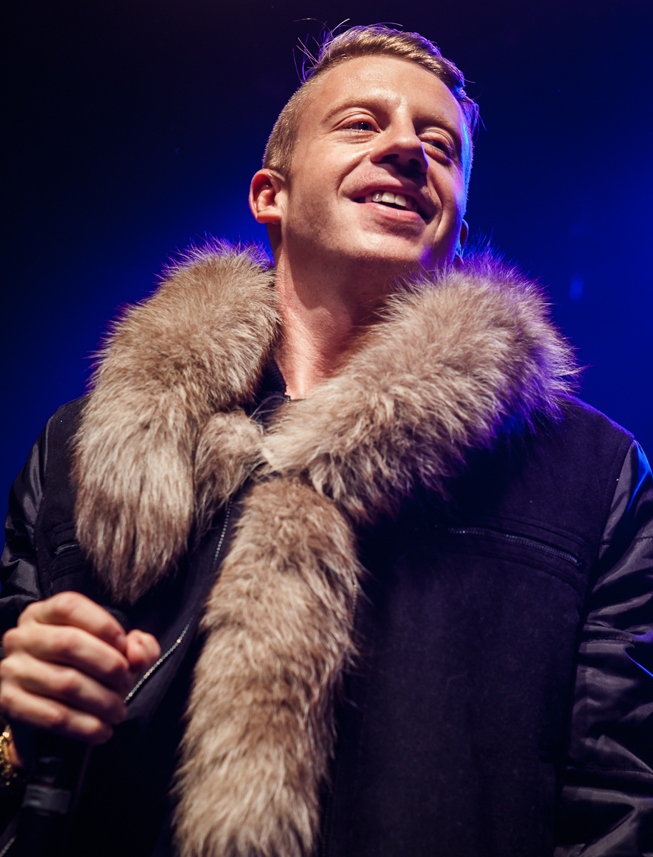 Macklemore- The Heist Tour Toronto Nov 28. Photography shot by drew.